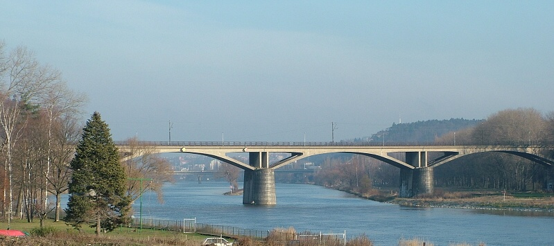 Part of the Braník Bridge (Branický most) in Prague, Czech Republic, as seen from Malá Chuchle.